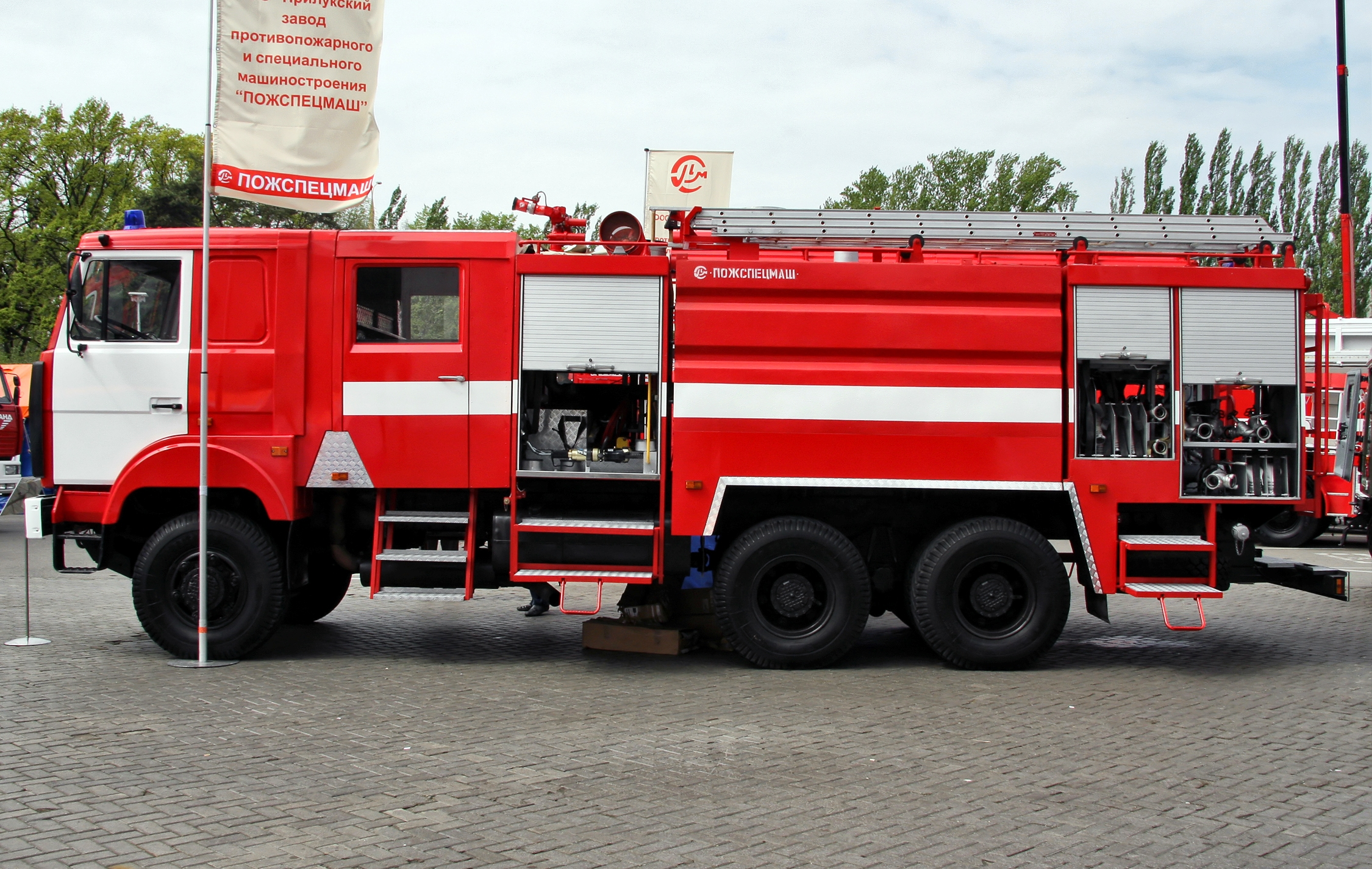 Firefighting vehicle ATs-40/4 on MAZ-631708 chassis at ISSE-2011 in Russia.